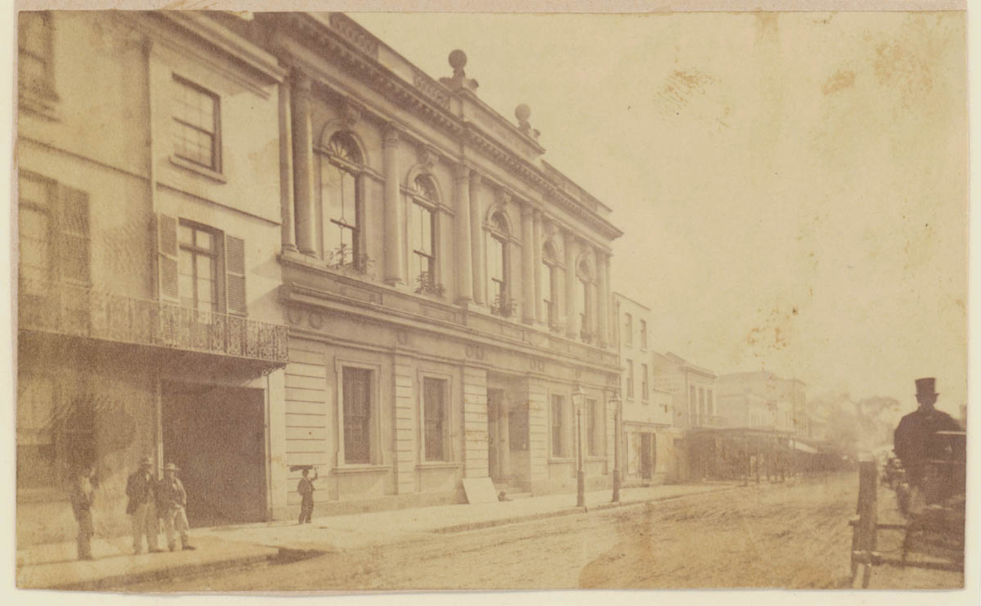 The Sydney Mechanics' School of Arts, Pitt Street. From an album of photographs with the inscription "Colonel Trevor, 14th Regiment, November 10th, 1869" in the Collection of the State Library of New South Wales.